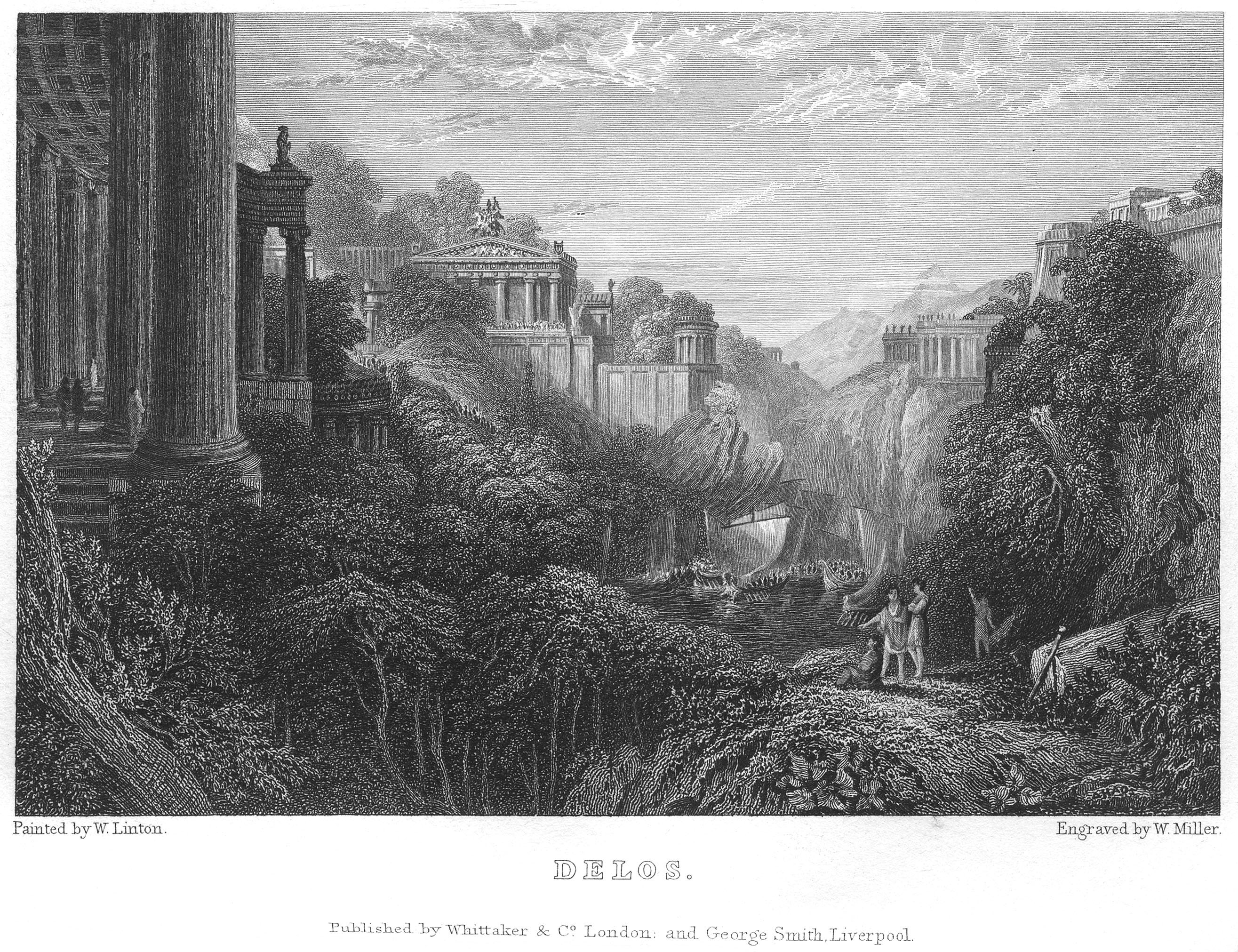 Delos engraving by William Miller after W Linton, (date of engraving 1830, paid £31-10-0) published in The Winter's Wreath for MDCCCXXXI. A Collection of Original Contributions in Prose and Verse. London: Published by George B. Whitaker; and George Smith, Liverpool. 1831